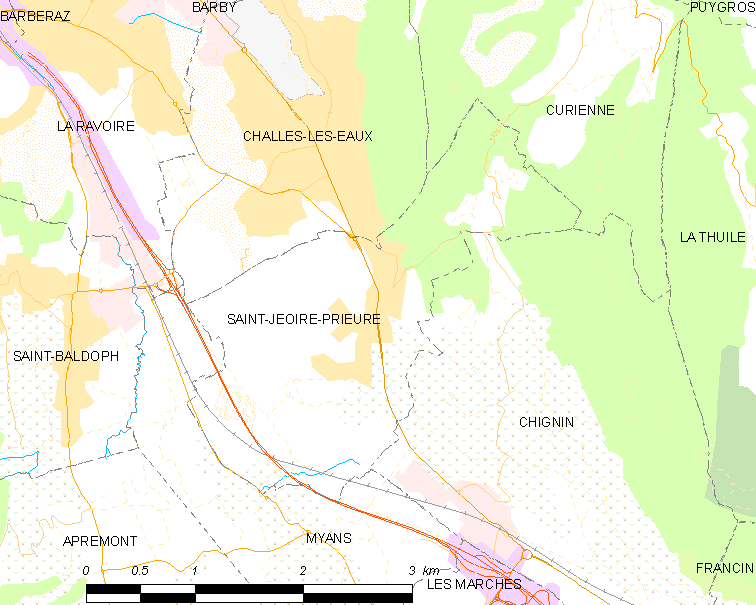 Map of French municipality